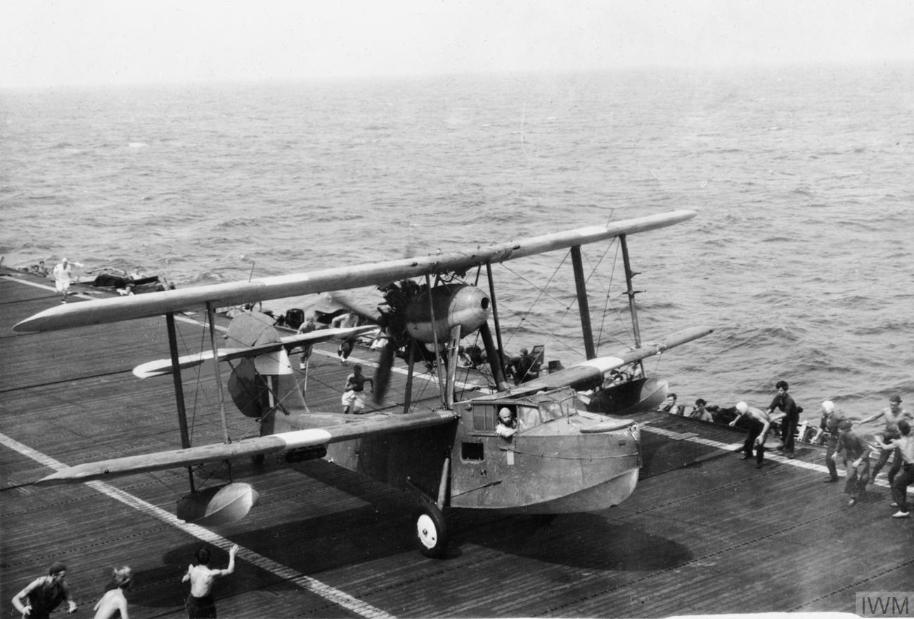 A Supermarine Walrus, piloted by Lieutenant (A) S Lawrence, lands the deck of a British aircraft carrier in the Indian Ocean. Lawrence had just rescued under fire the pilot of a Grumman Hellcat, which had been shot down while attacking Japanese positions on the Nicobar Islands.